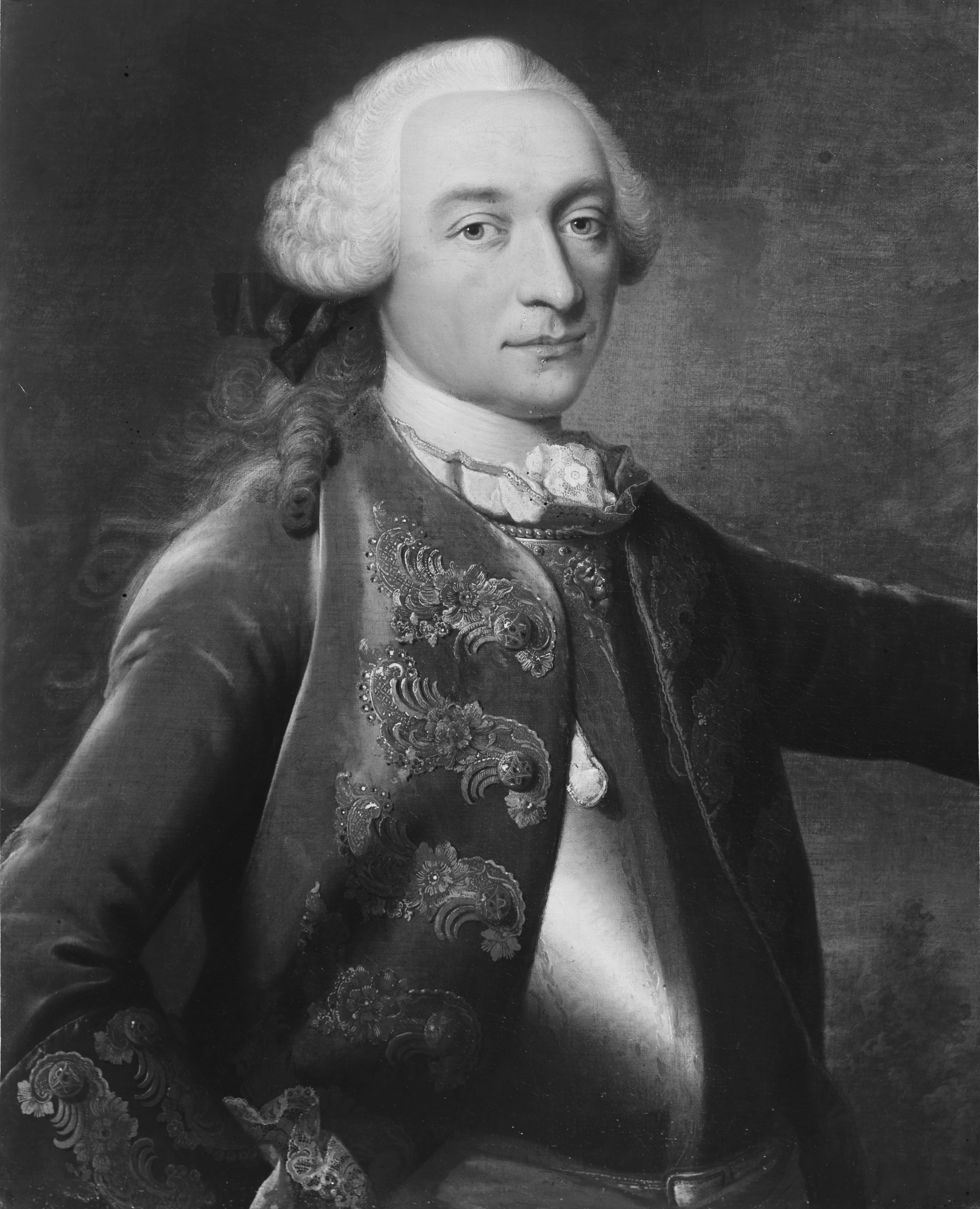 Detail of a portret of Douwe Sirtema van Grovestins (1710-1778). The original painting was destroyed during the Bombing of the Bezuidenhout district in The Hague, in 1945.